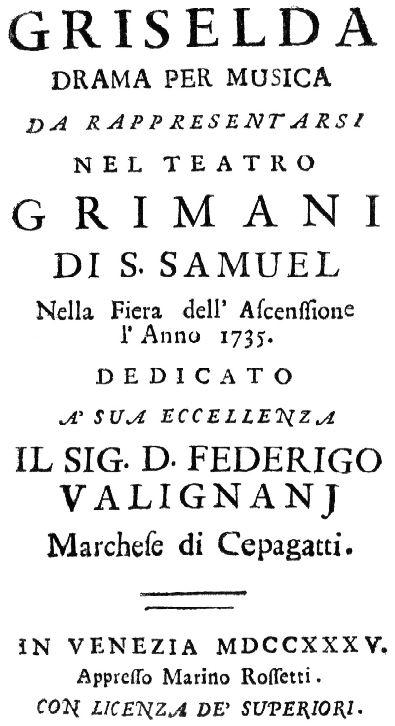 Cover of the libretto for the premiere performance of Vivaldi's Griselda